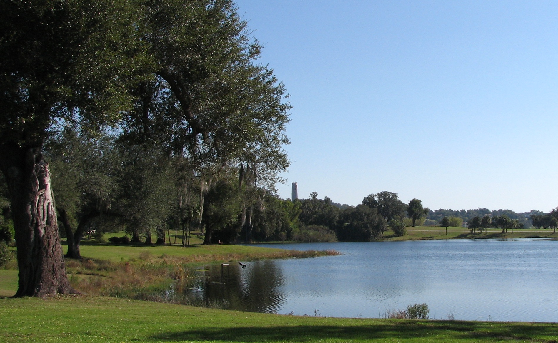 Entrance to Mountain Lake Estates Historic District, an exclusive neighborhood of historic and distinctive homes surrounding Mountain Lake, north of the city of Lake Wales, Florida. Designed by famed landscape architect Frederick Law Olmsted, Jr. near the highest point in central Florida. Bok Tower Gardens is visible in distance. Listed on the National Register of Historic Places in 1993 as Historic District #93000871.